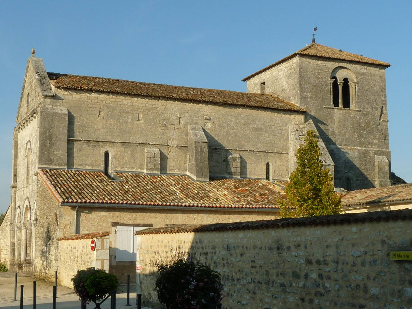 church of Fléac, Charente, SW France